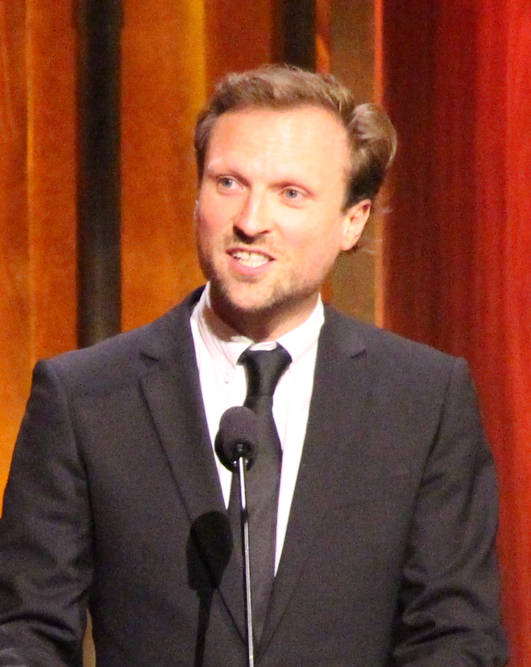 Orlando von Einsiedel at 74th Peabody Award